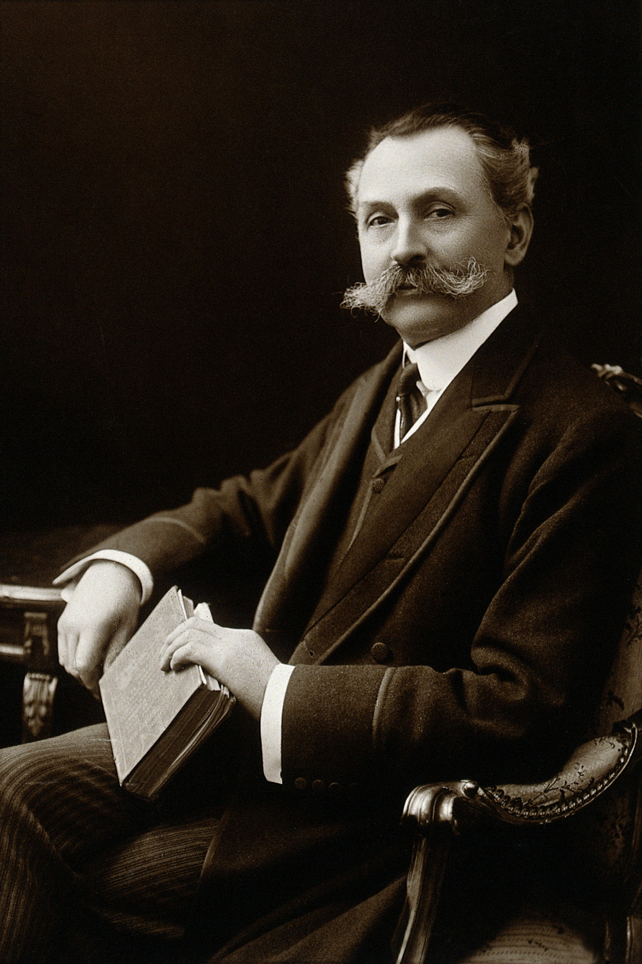 Sir James Dundas-Grant. Photograph by the Dover Street Studios. Iconographic Collections Keywords: portrait photographs